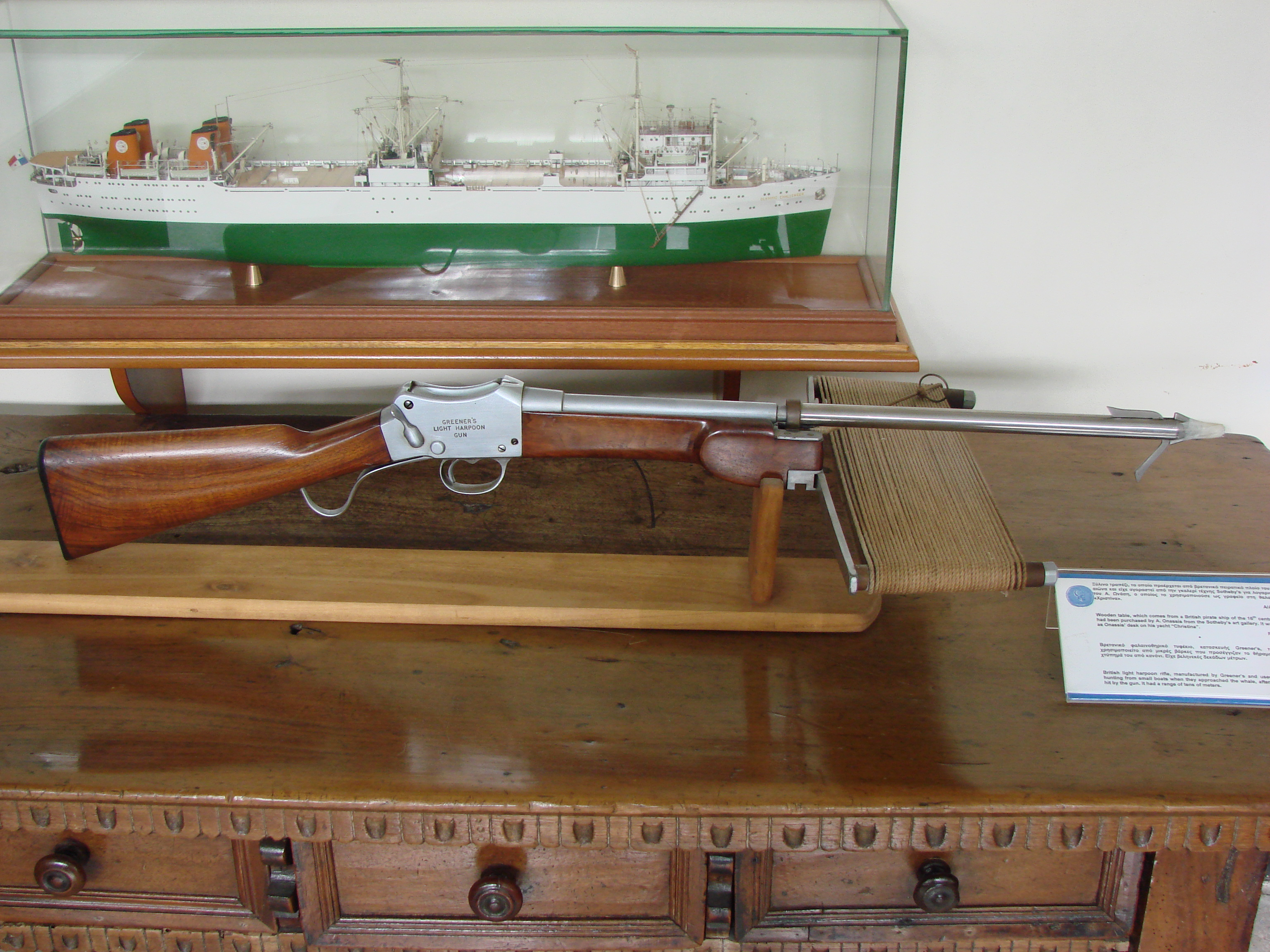 A Greener-Martini Light Harpoon Gun at the Hellenic Maritime Museum.